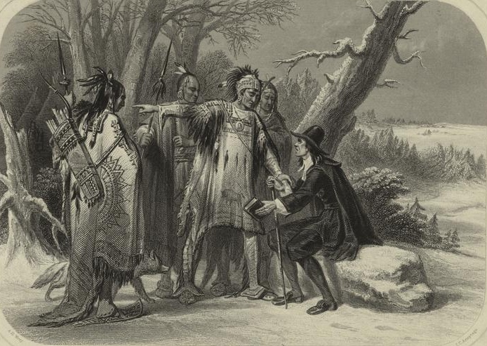 Engraved print depicting Roger Williams, founder of Rhode Island, meeting with the Narragansett Indians